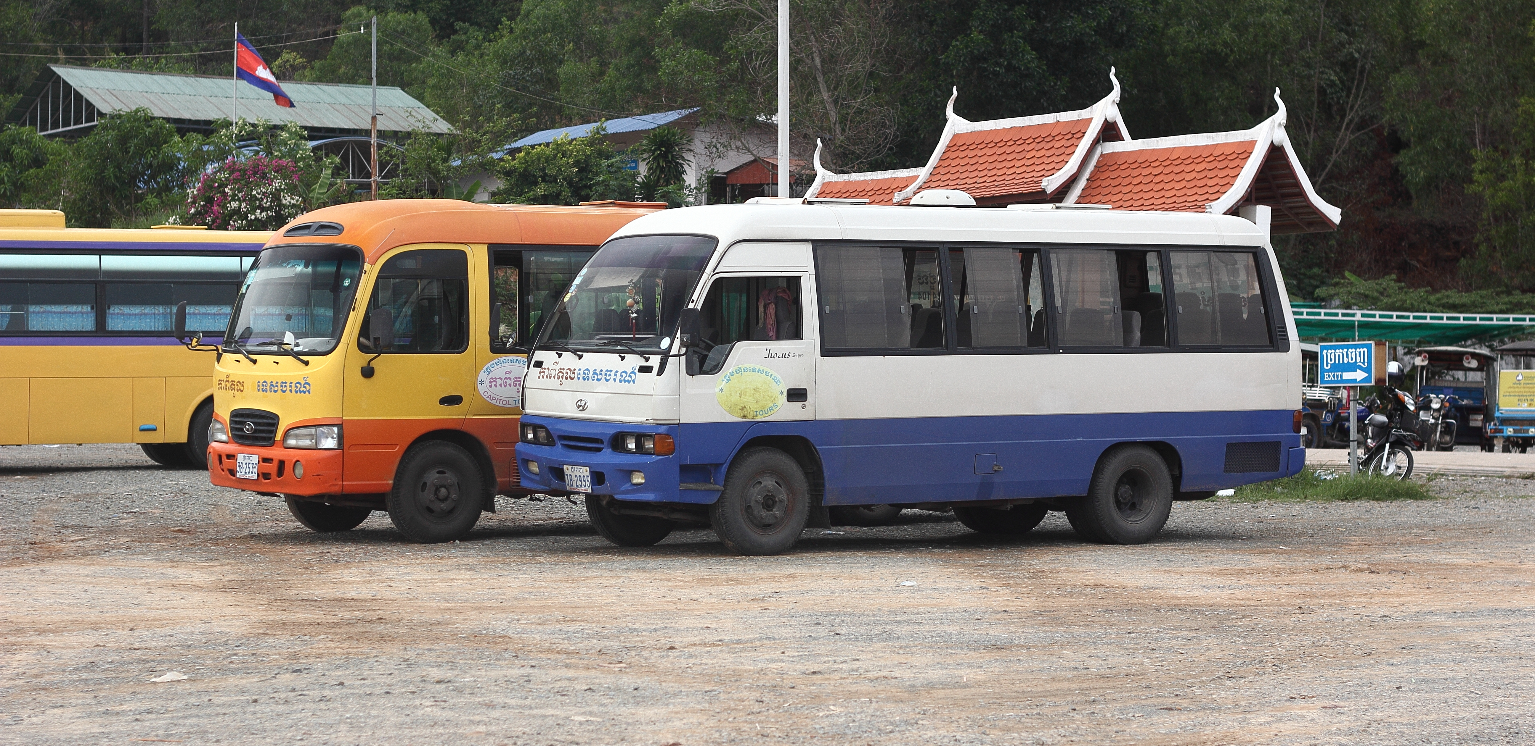 Cambodian auto station.